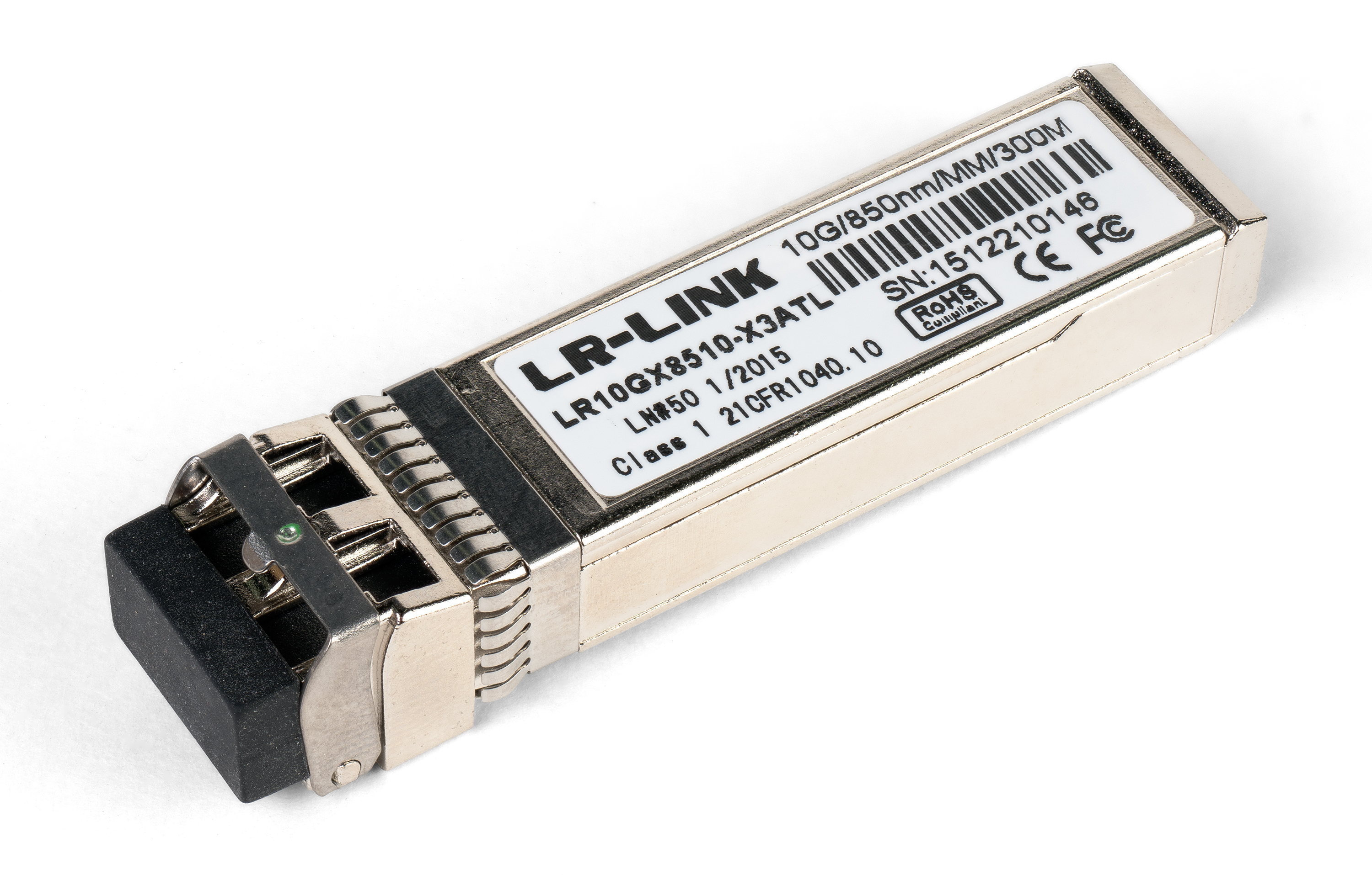 LR-Link 10GBASE-SR SFP+ transceiver.